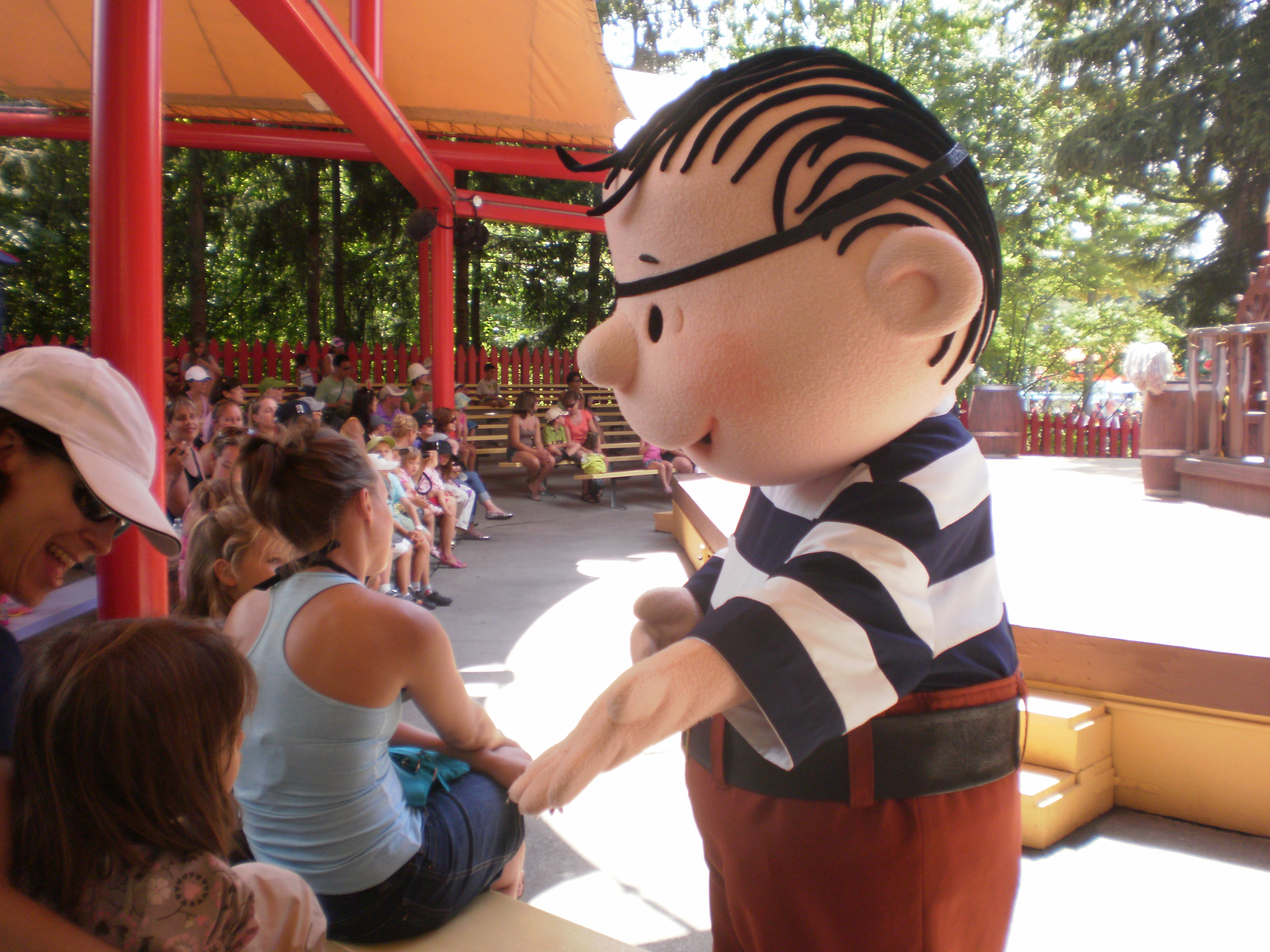 Playhouse Theatre at Canada's Wonderland is presenting "Charlie Brown's Pirate Adventure" this year. It's back to the spirit and quality of "Dora the Explorer's Sing Along Adventure", from previous years.